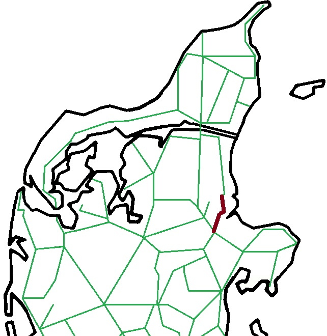 Map of railways in Northern Jutland in Denmark with the private railway Randers-Hadsund Jernbane in brown.